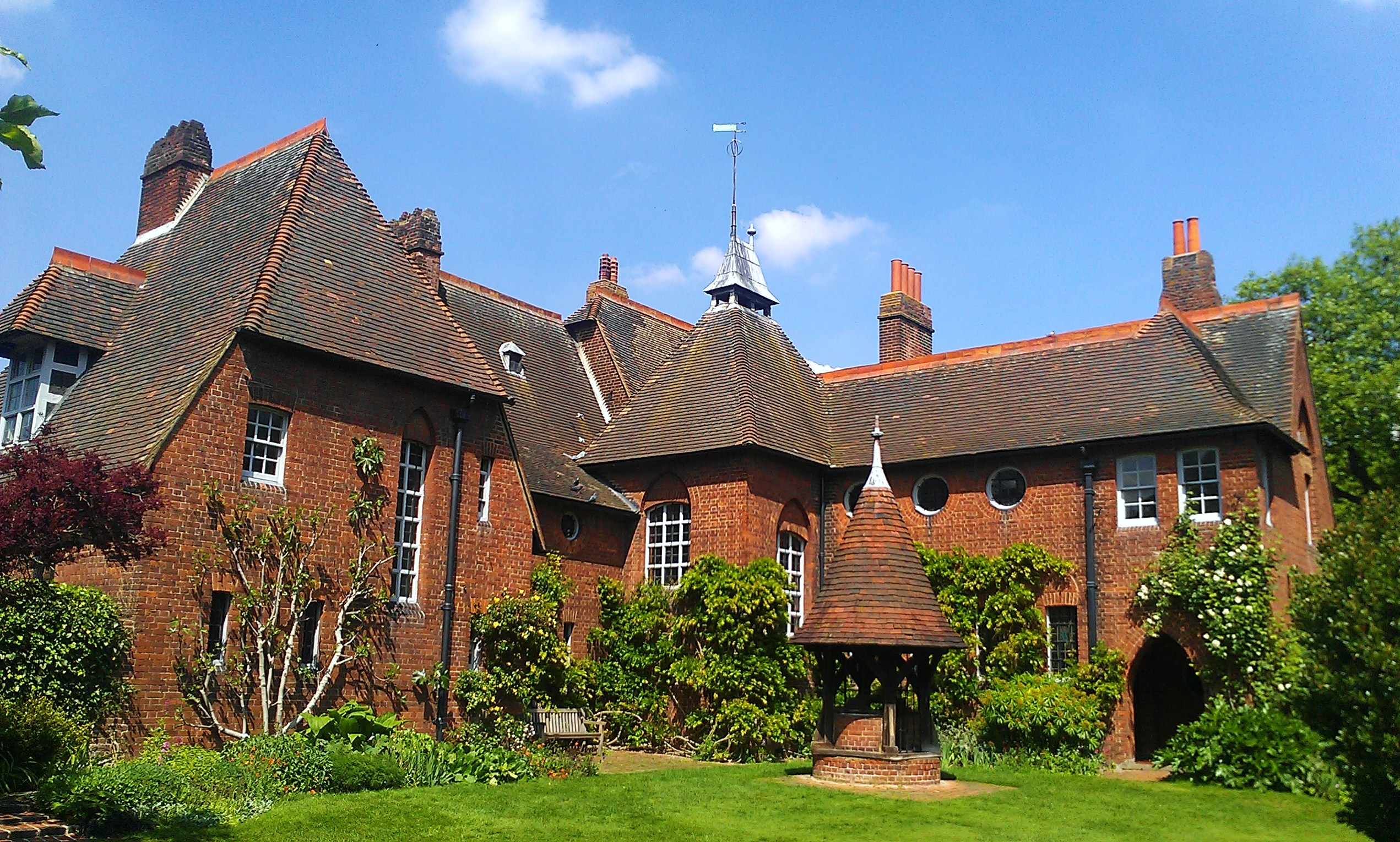 The Red House in Upton, Bexleyheath, Greater London.